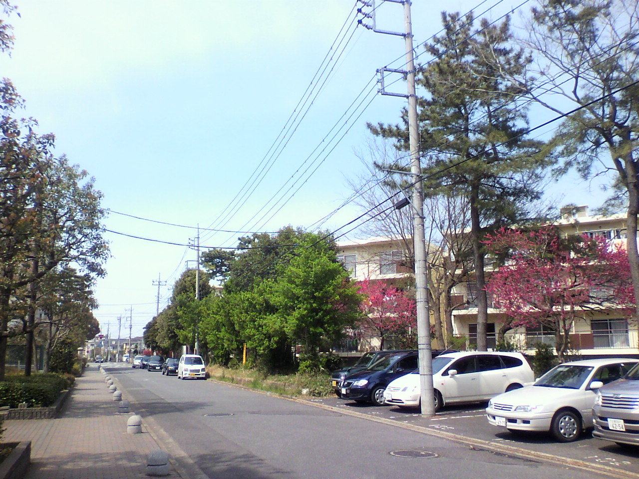 This is a landscape of Matsushiro 4 chome, Tsukuba, Ibaraki, Japan.